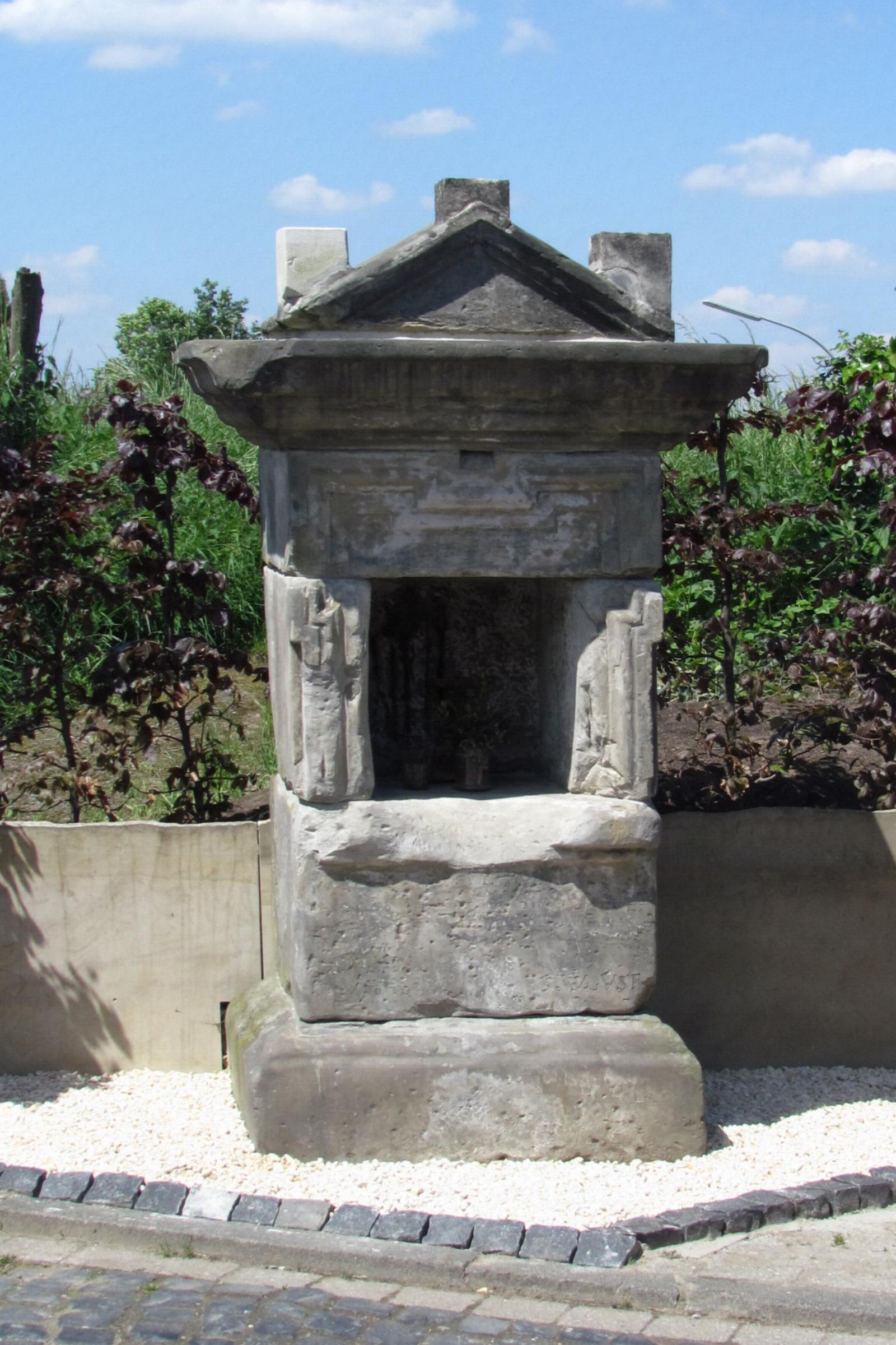 This is a photograph of an architectural monument.It is on the list of cultural monuments of Korschenbroich